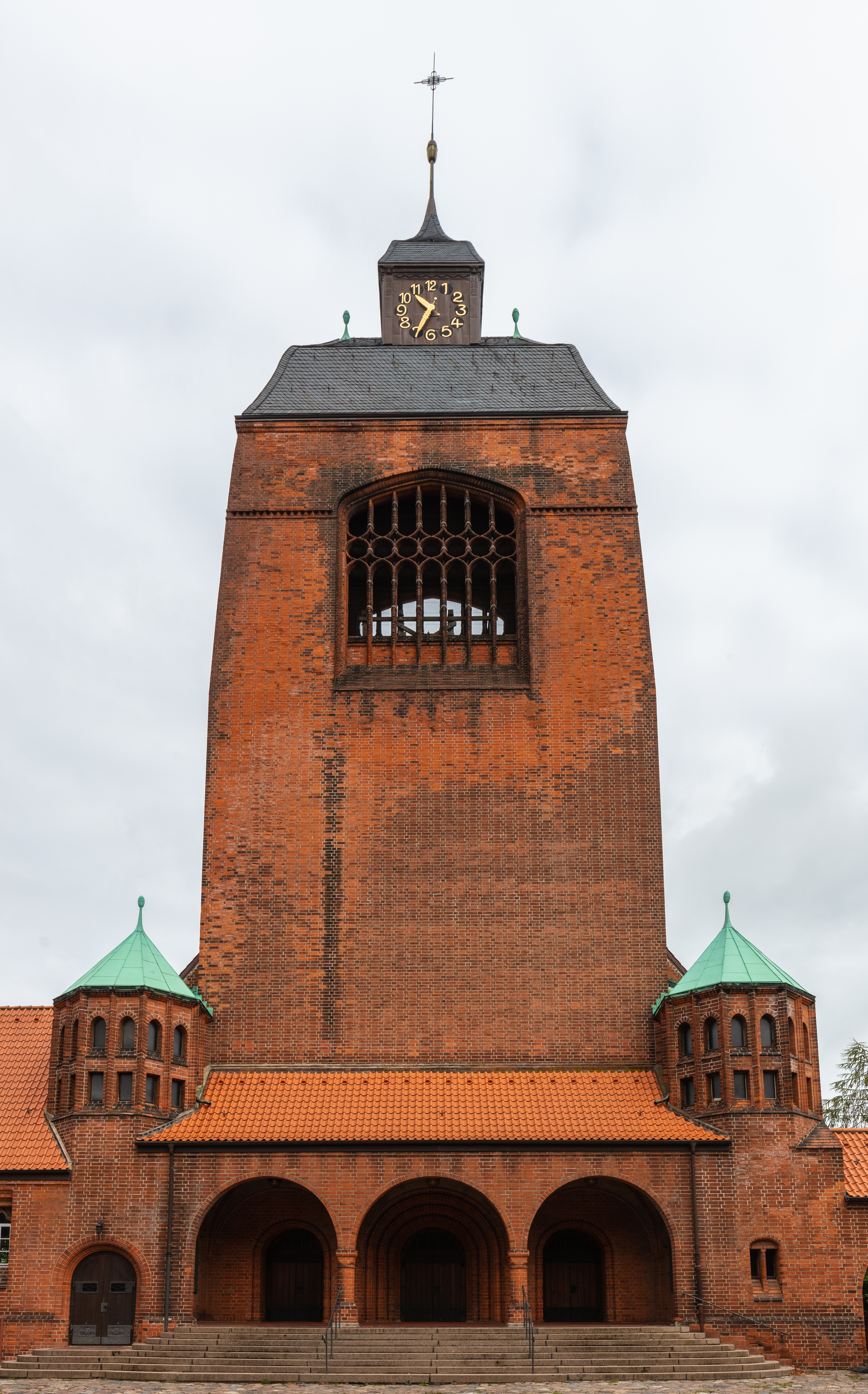 Petrus church, Kiel, Germany